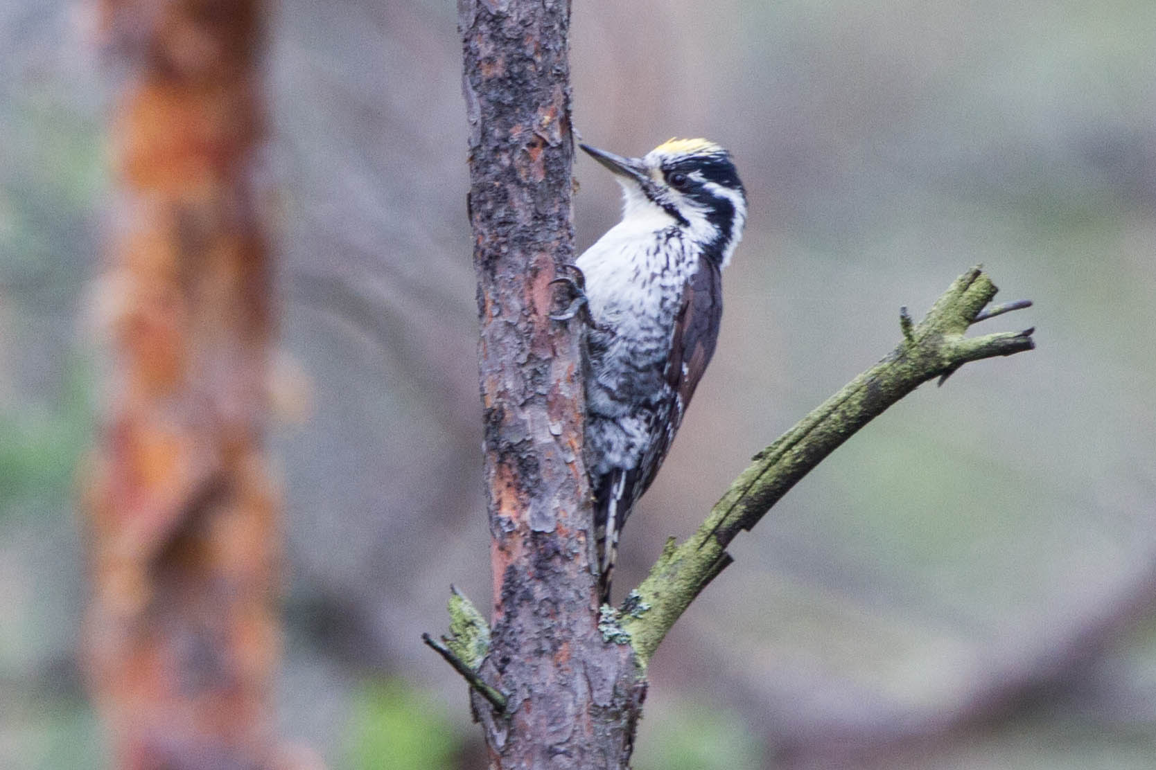 Eurasian Three-toed Woodpecker Picoides tridactylus, Belarus